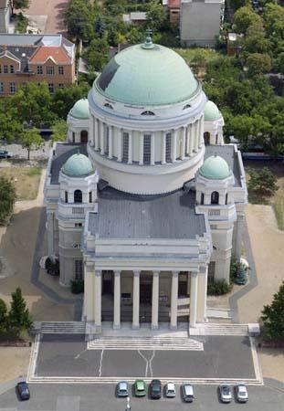 Rezső square, Józsefváros, Budapest, Hungary, aerial photography